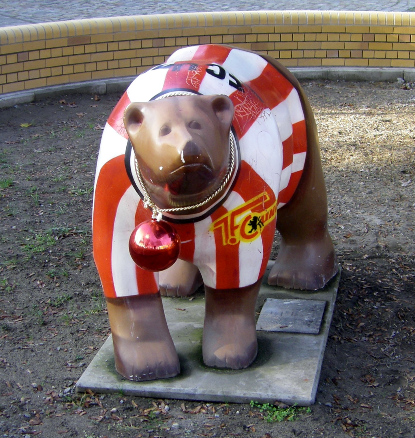 Berlin bear with jersey of German football club 1. FC Union Berlin on the area of their stadium "An der Alten Försterei"